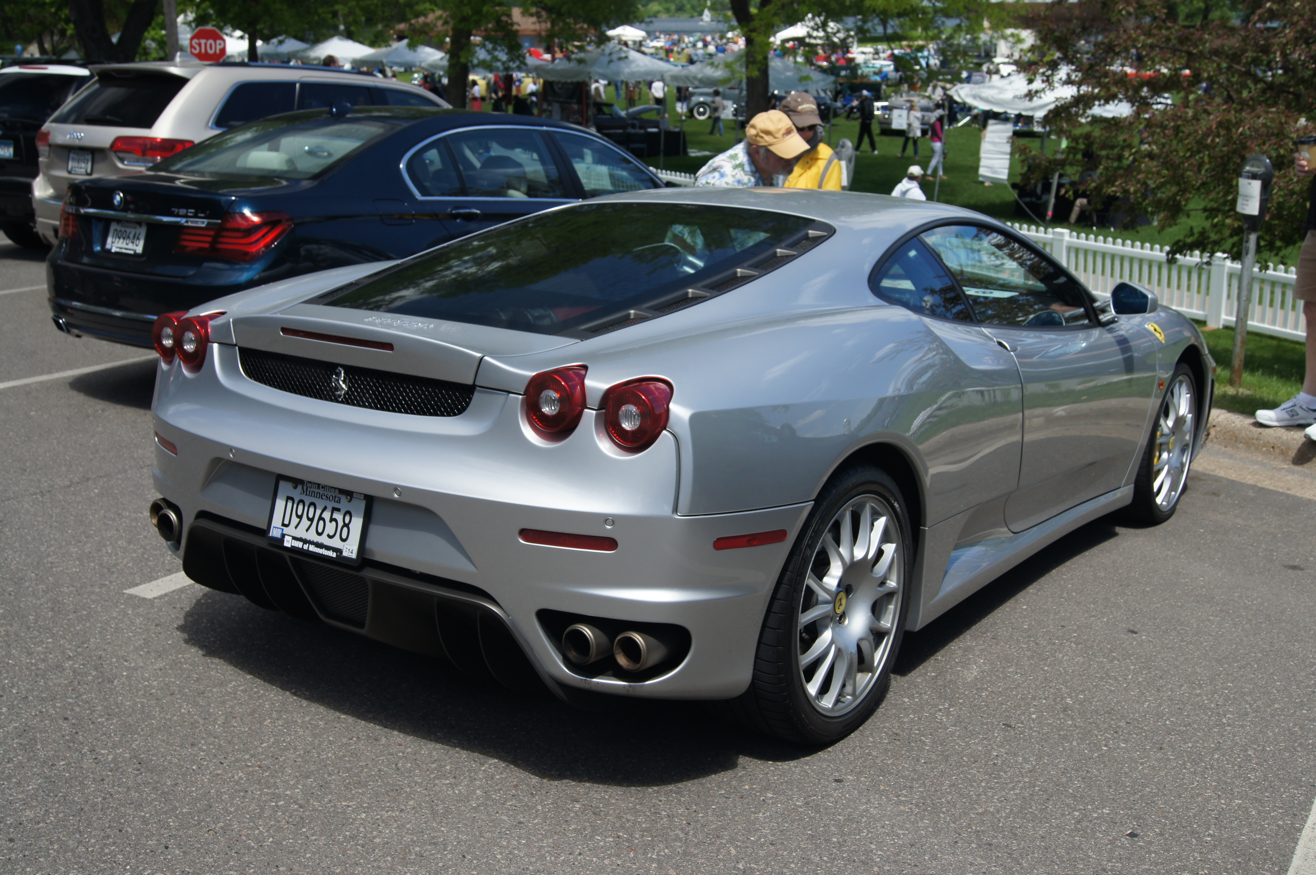 Inaugural 10,000 Lakes Concours d'Elegance to Benefit Courage Center Foundation June 2, 2013 Excelsior Commons Excelsior Minnesota Thousands of car pictures at the link below: Inaugural 10,000 Lakes Concours d'Elegance to Benefit Courage Center Foundation June 2, 2013 Excelsior Commons Excelsior Minnesota Thousands of car pictures at the link below